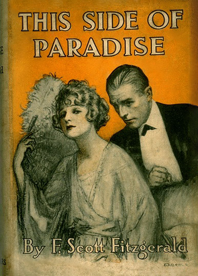 Dust jacket cover to first edition of This Side of Paradise by F. Scott Fitzgerald.